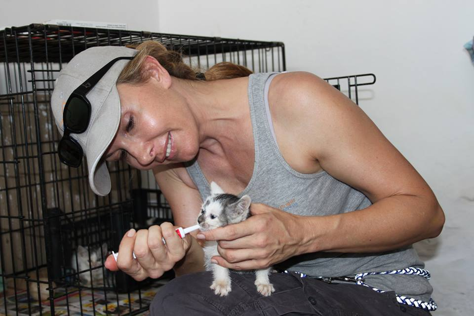 Susy Utzinger ist Gründerin der Susy Utzinger Stiftung für Tierschutz